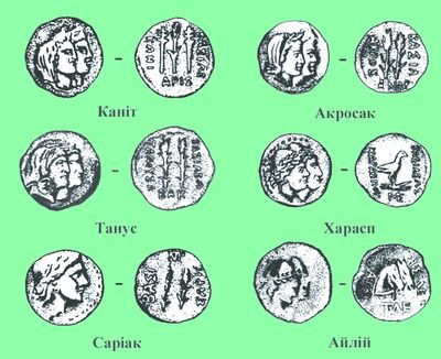 Coins of Scythia Minor